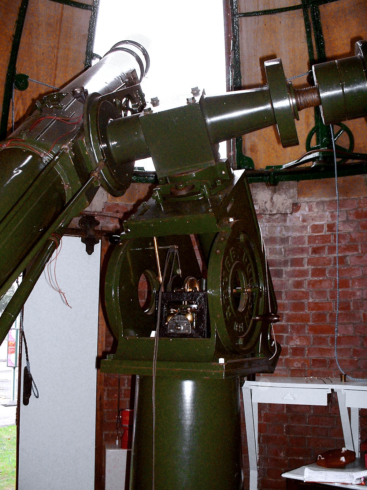 The telescope at the Aldershot obsevatory. An 8-inch refractor constructed in 1891 by Grubb.